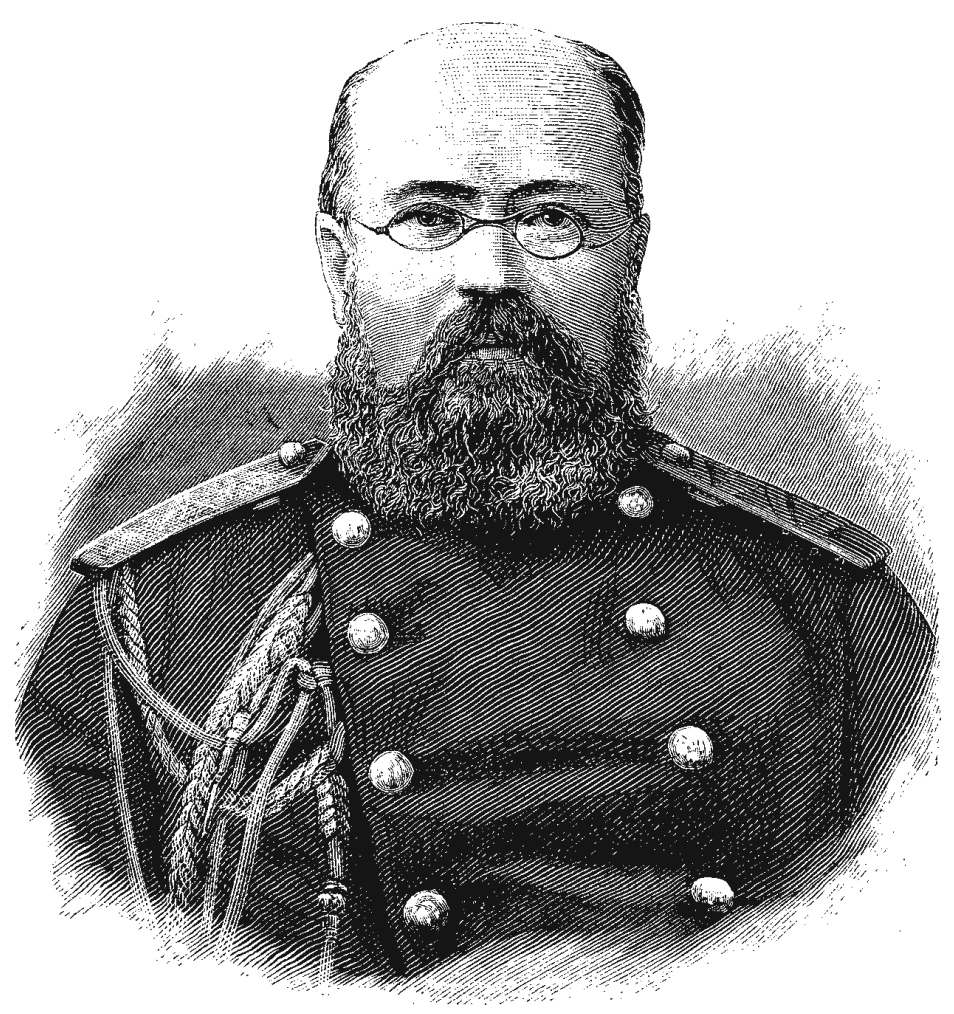 Komarov, Aleksandr Vissarionovich